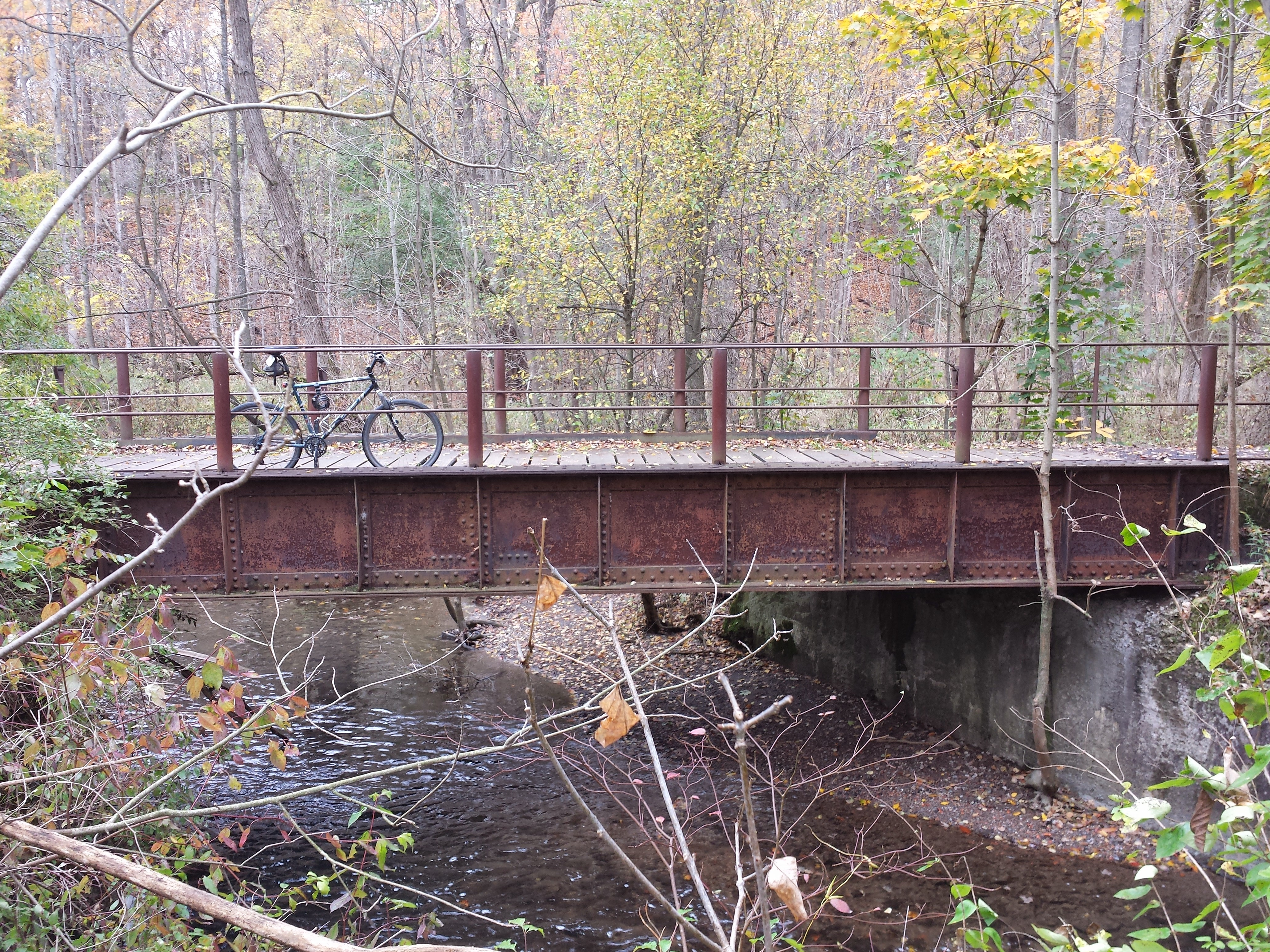 Part of the Skaneateles (it's pronounced skinny-atlas) Short Line Railroad is now the Charlie Major Nature Trail. It went from Skaneateles Junction along Skaneateles Creek to Skaneateles, at the north end of Skaneateles Lake in NY's Finger Lakes. You'd think they could be more creative with their names, but noooooo. There are three railroad bridges that remain, along with a number of industrial relics, from dams to more dams to even more dams. And foundations and pipestands, and decaying buildings. It's only 3/4th of a mile long, but it's an abandonfan's delight.